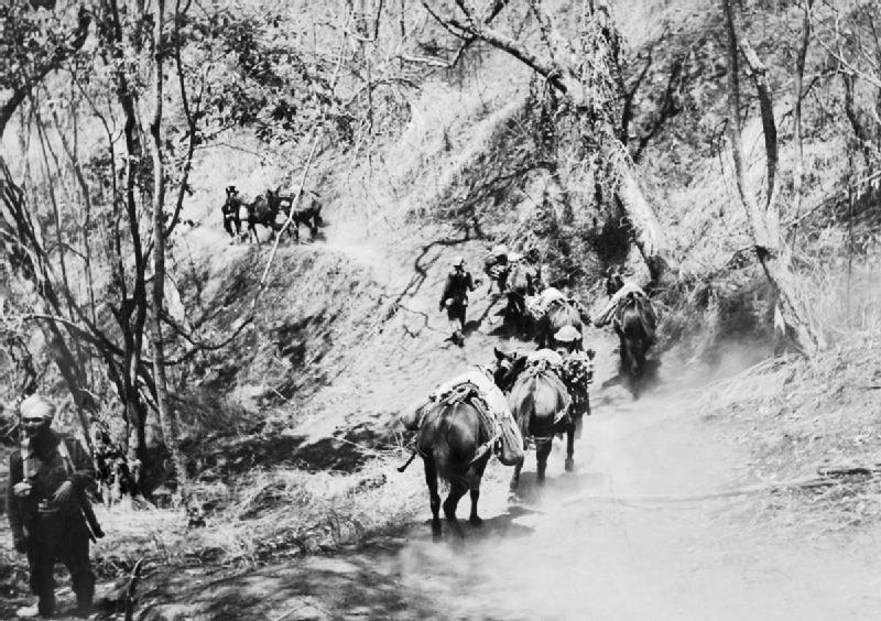 A mule column of the 2nd Punjabi Regiment carries supplies to the front line, Burma, 1944. Logistics: A mule column of the 2nd Punjabi Regiment carries supplies to the front line.